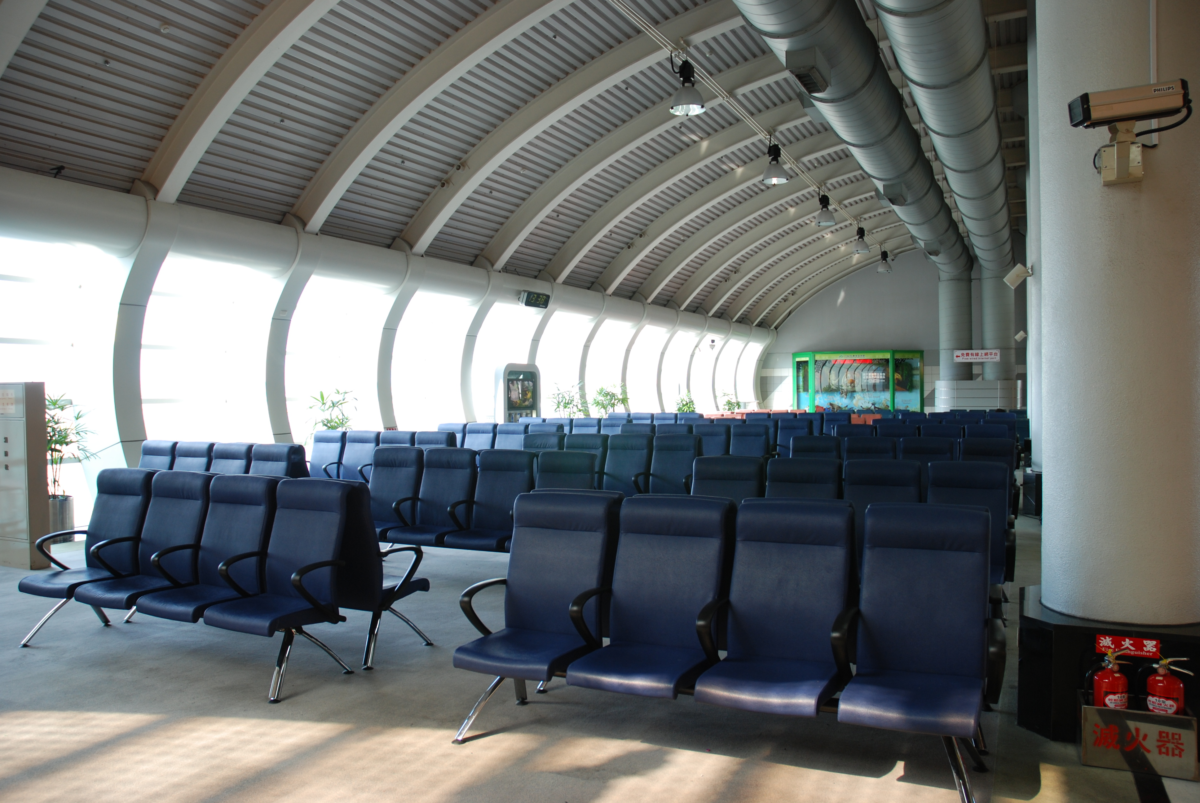 Kaohsiung International Airport Waiting Area